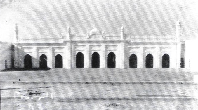 Mubarak-Mosque in Rabwah